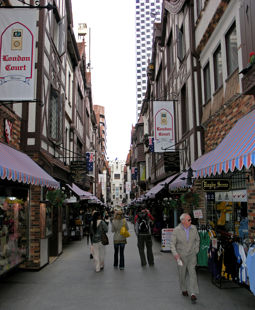 London Court Perth, WA, taken by SeanMack.